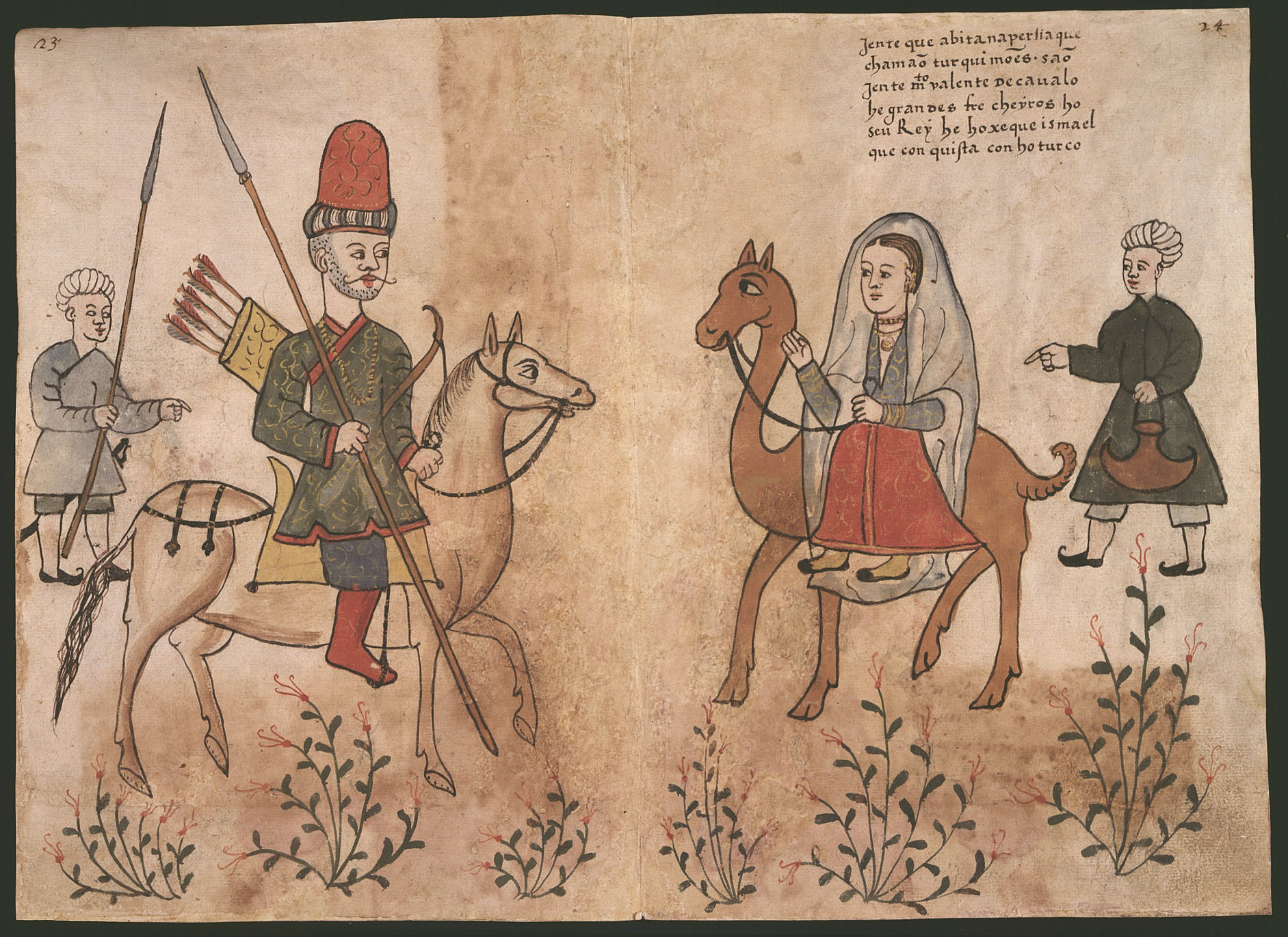 Anonymous 16th century Portuguese watercolour illustration from the Códice Casanatense depicting Turkic people from Persia. The inscription reads: "People that inhabit Persia called Turkomans. They're very valiant horsemen and great bowmen, their King is Sheikh Ismail, that makes conquest on the Turk"